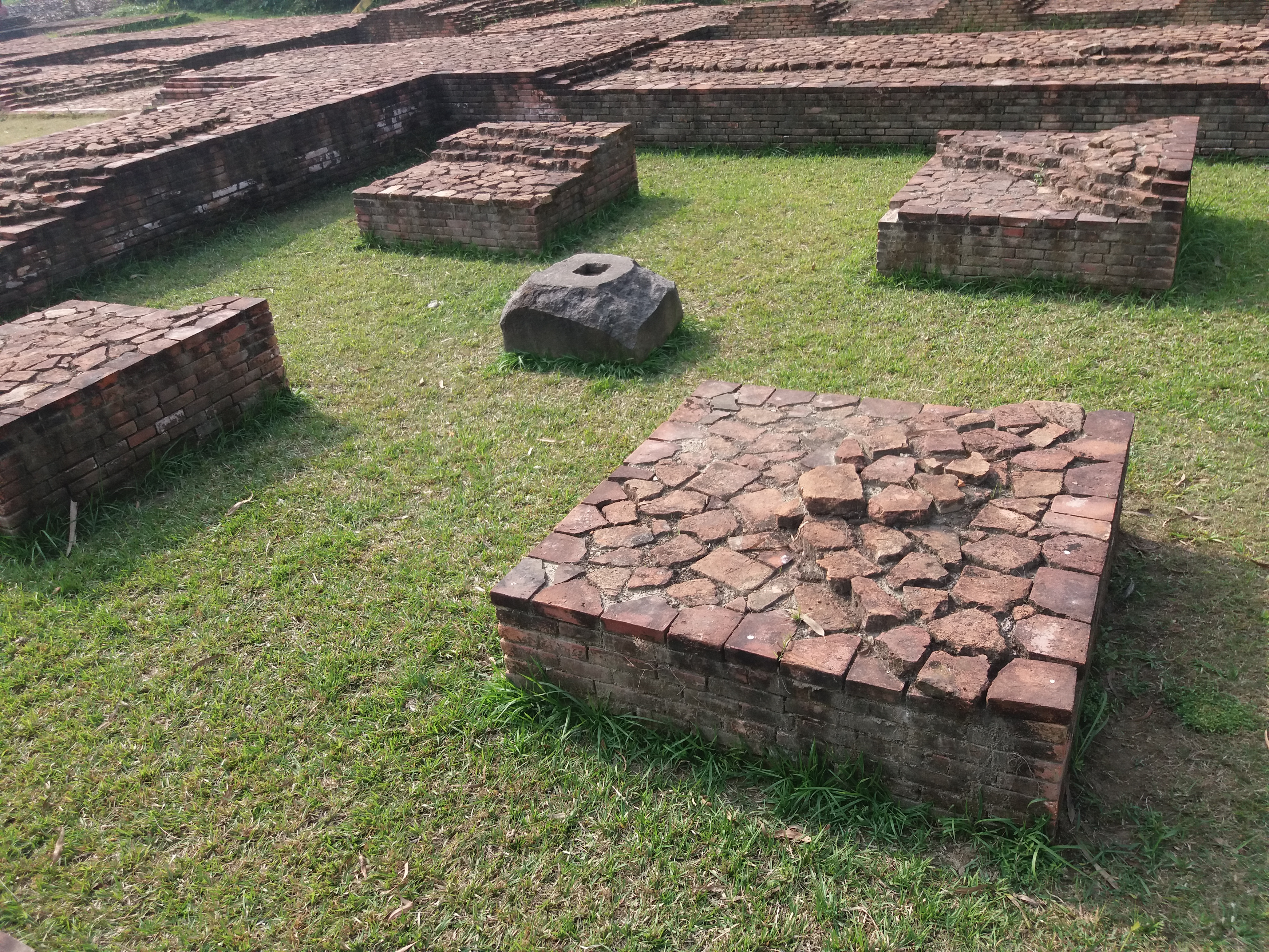 Bikrampur Vihara is an ancient Buddhist vihara at Raghurampur village, Bikrampur, Munshiganj District in Bangladesh.